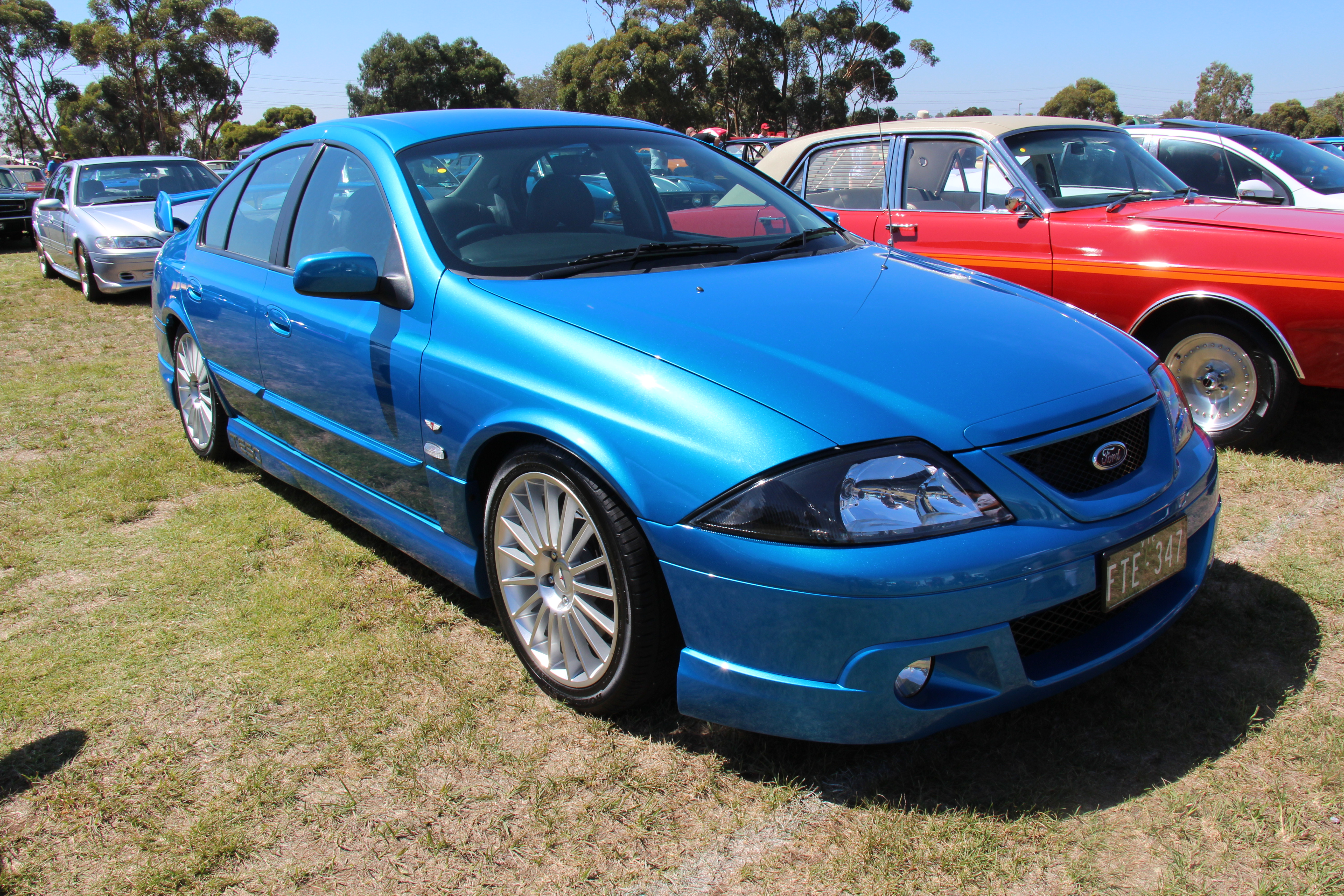 2002 Tickford Ford AU Falcon TE50